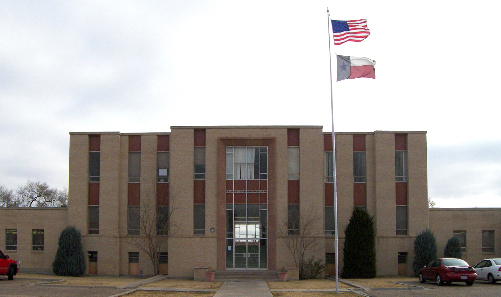 The Swisher County Courthouse, 119 S Maxwell, Tulia, Texas, United States.